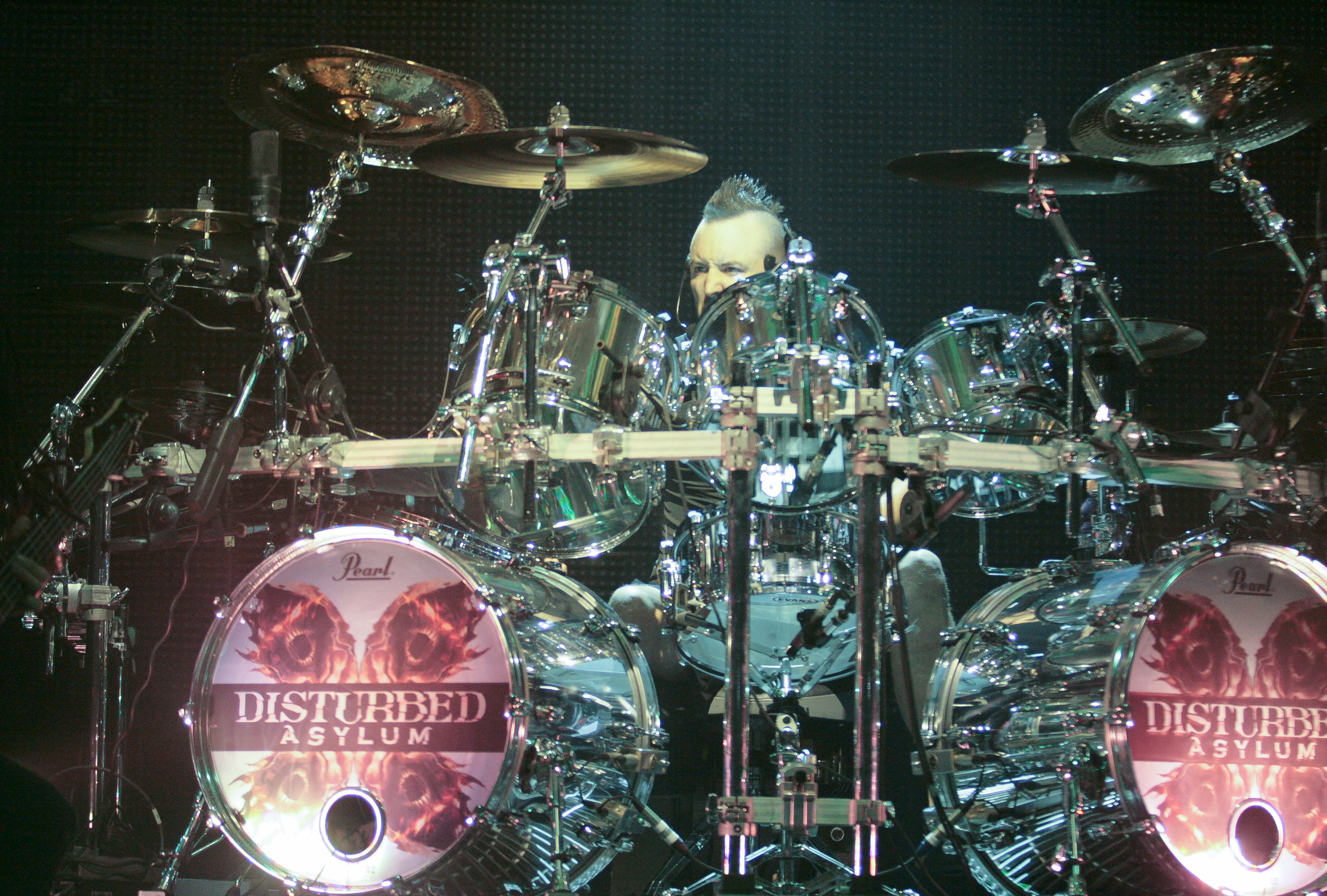 Mike Wengren of Disturbed playing live at Mayhem Festival 2011.